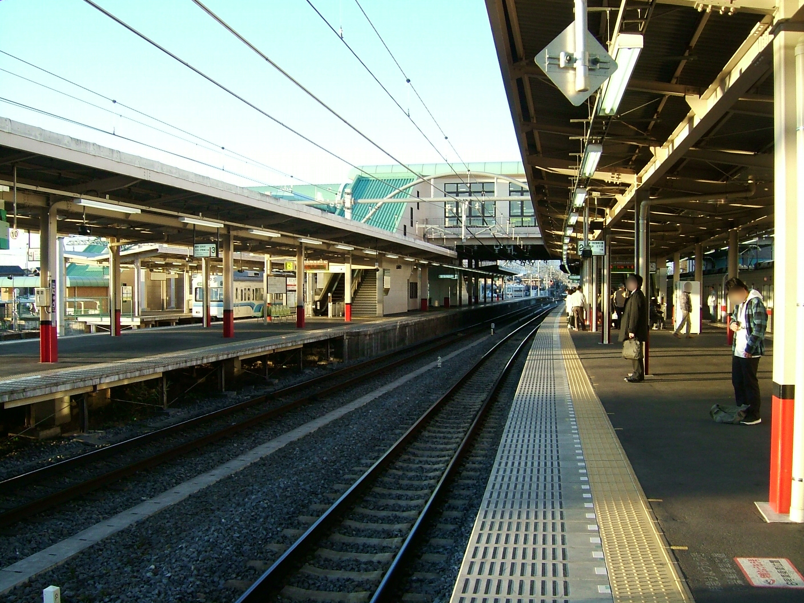 The platforms at Hanyu Station on the Tobu Isesaki Line in Hanyu city, Saitama Prefecture, Japan